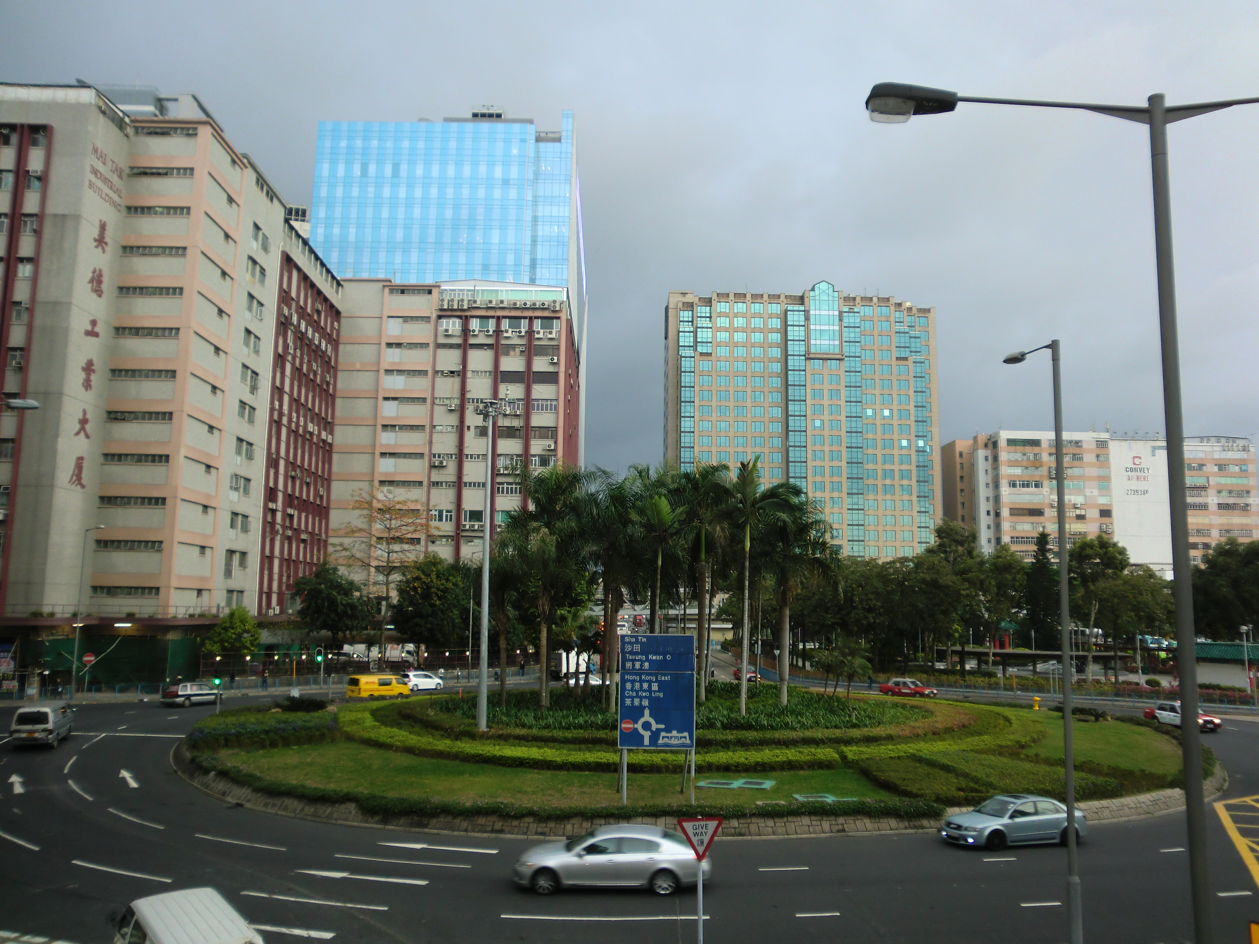 Wai Yip Street roundabout